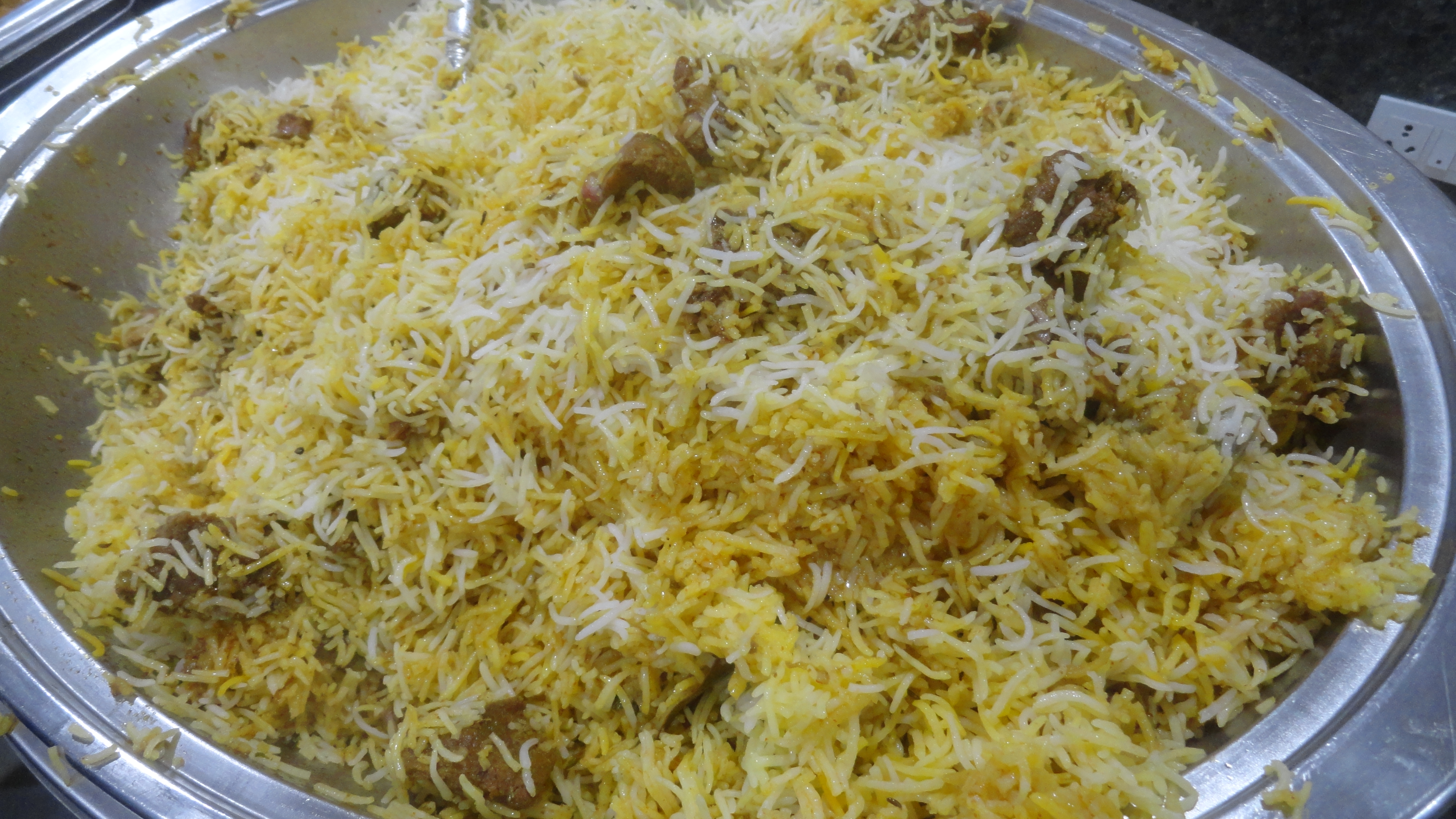 Hyderabad mutton biryani. hyderabad